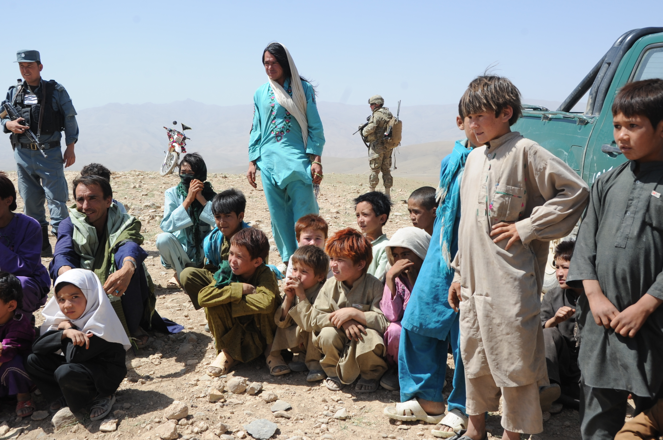 Hazara of Daykundi province. Hazara men, boys and Afghan Uniform Police watch as the U.S. Army Corps of Engineers inspects a project site in Daykundi province. (USACE photo by Karla K. Marshall)